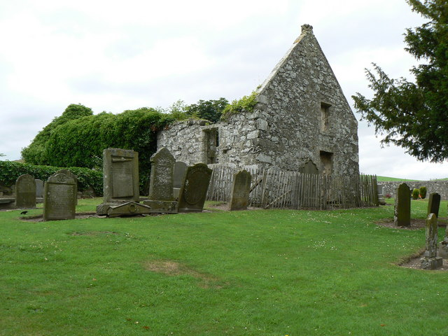 Creich Church. Ruined church and graveyard beside the hamlet of Creich.